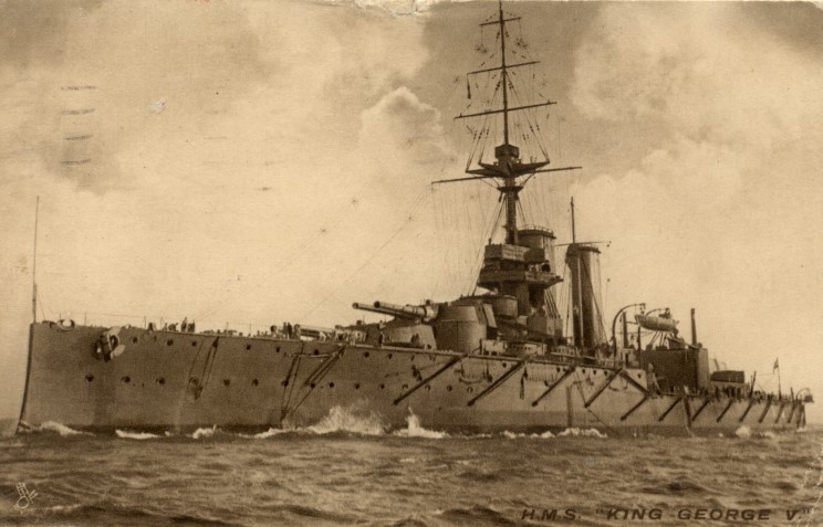 Postcard of English battleship HMS King George V